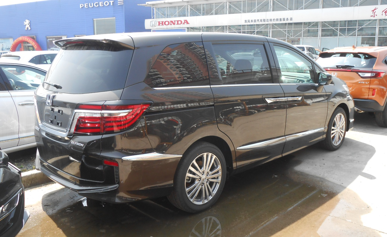 Honda Elysion II photographed in Shanghai, China.